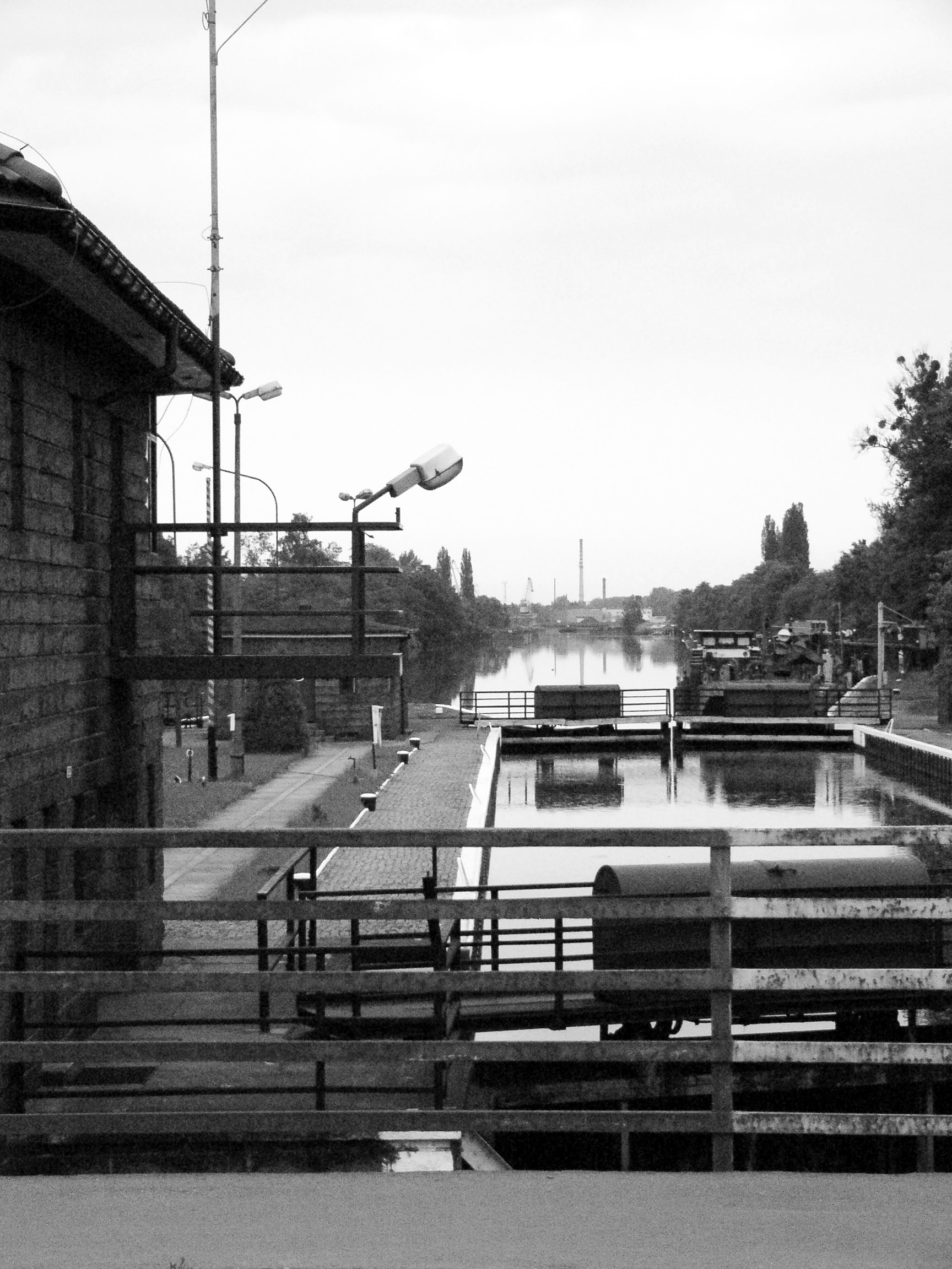 Łabędy Lock in Gliwice, Poland